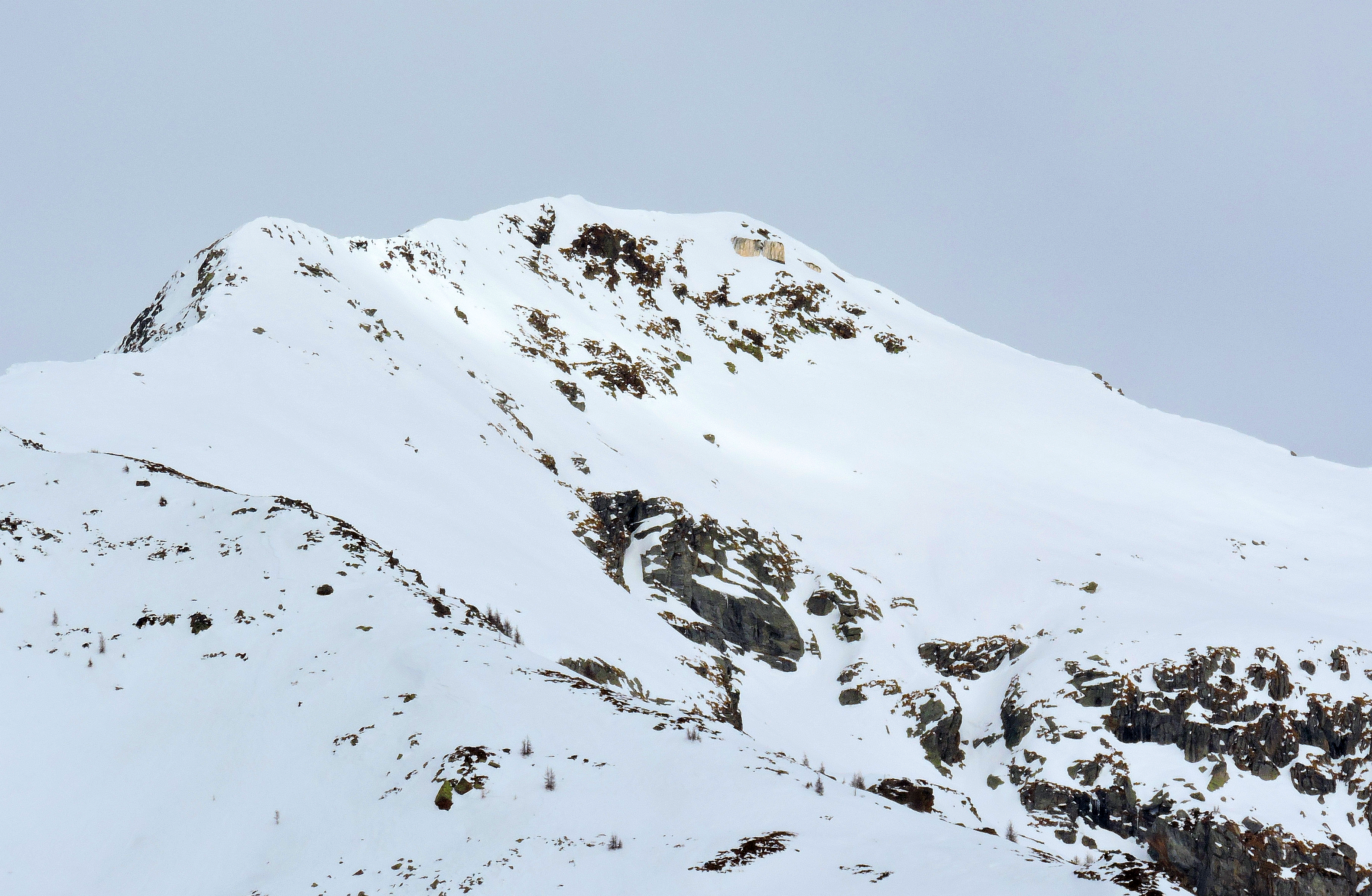 Mont Pierre-Blanches (AO/BI, Italy) from Punta Leretta